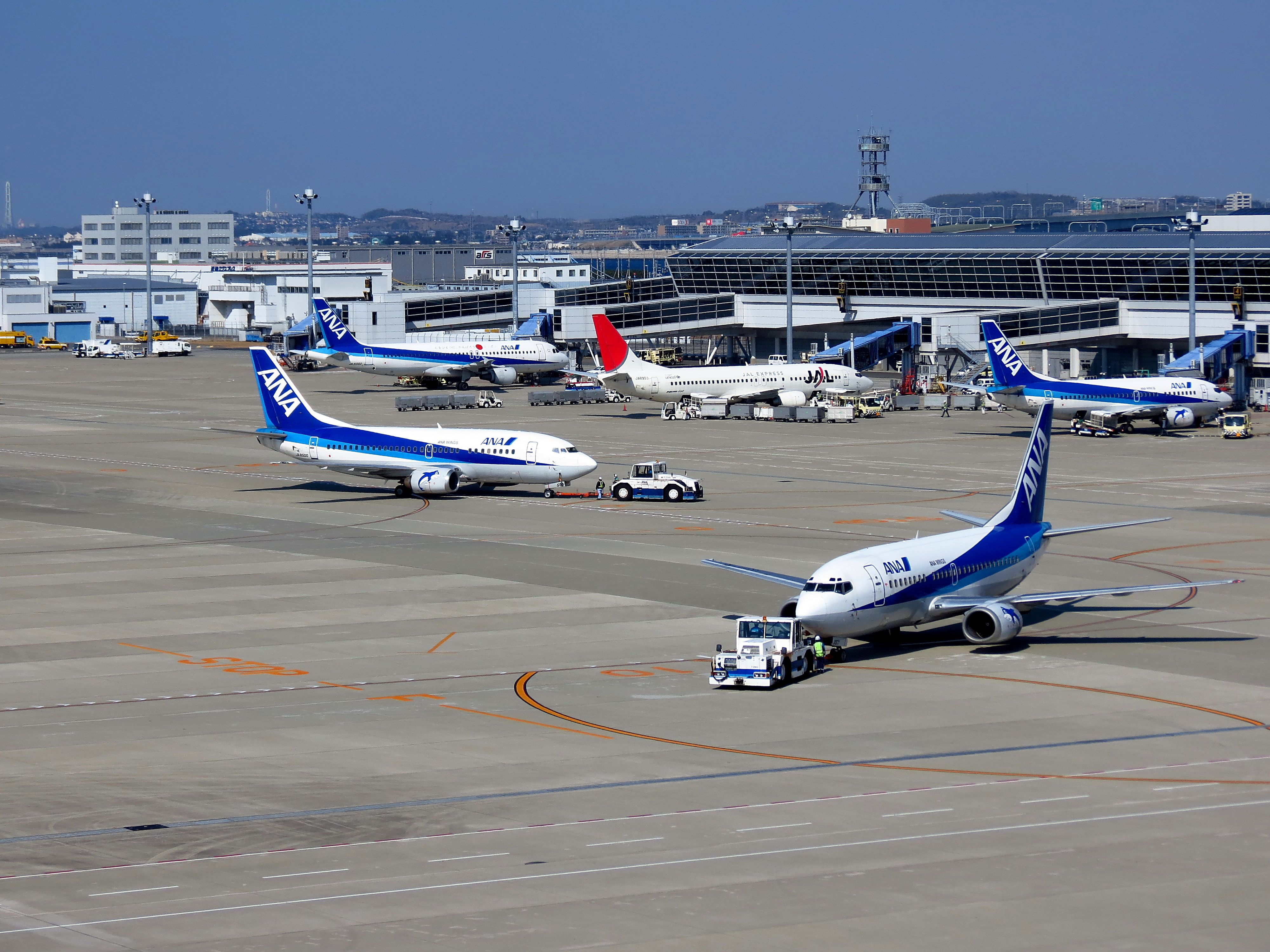 JA357K, ANA Wings Boeing 737-500 JA8500, ANA Wings Boeing 737-500 JA307K, ANA Wings Boeing 737-500 JA8993, JAL Express Boeing 737-400 JA8392, All Nippon Airways Airbus A320-200 Chūbu Centrair International Airport